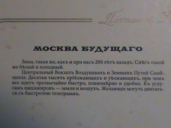 Moscow in XXIII Century. Central Air and Land Vokzal. . Russian Empire postcard, Einem Factory, 1914, Moscow. Side B.